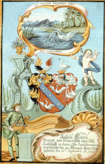 Chronicle of the Dismas Fraternity in Ljubljana